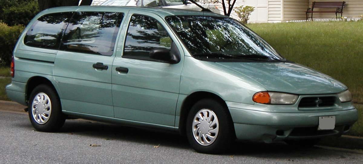 1998 Ford Windstar photographed in USA.